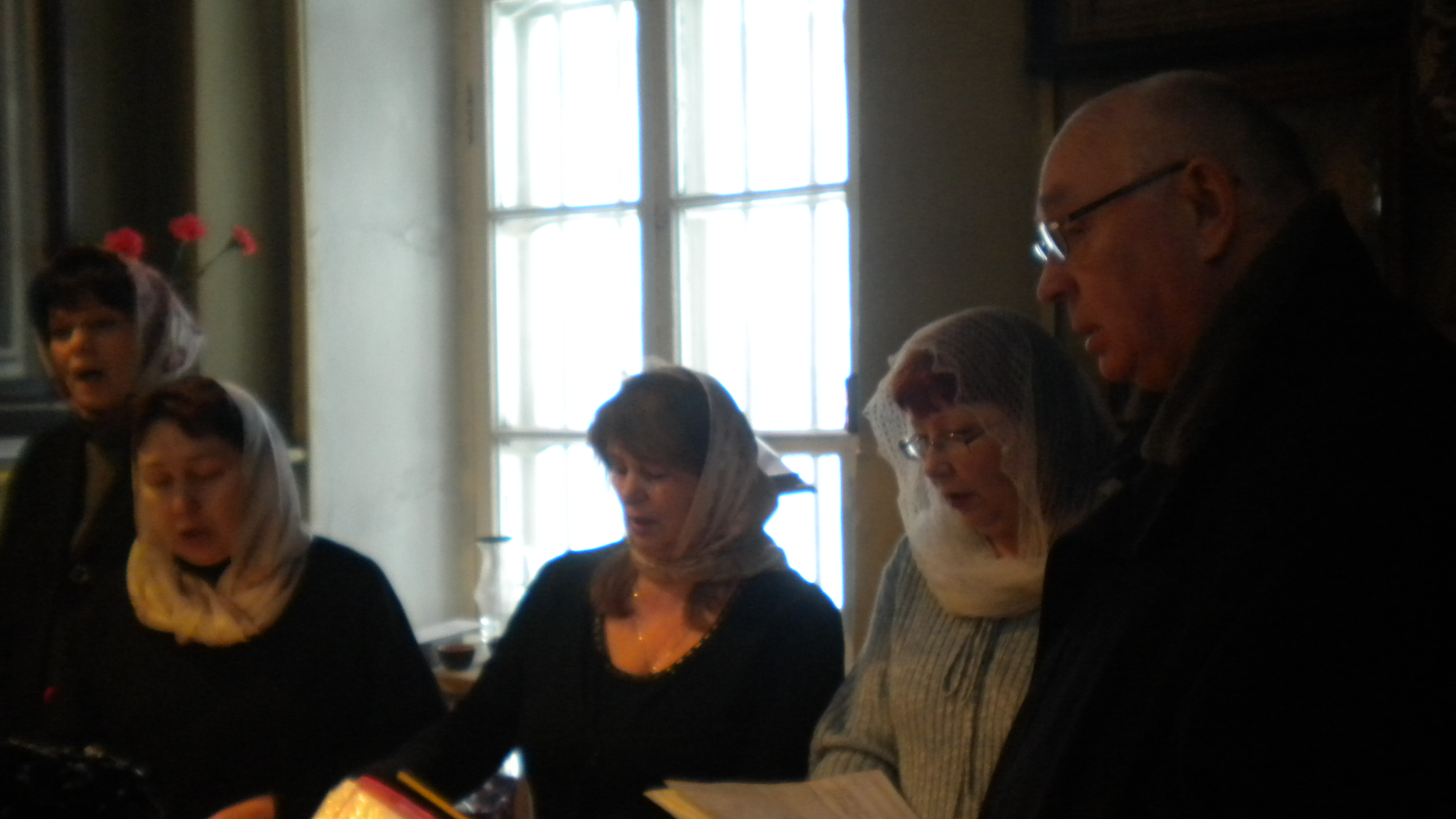 Choir of Orthodox Church of Rezekne.